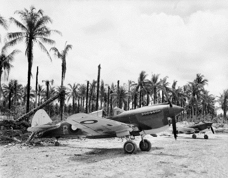 LOS NEGROS ISLAND, ADMIRALTY ISLANDS. 1944-03-08. RAAF KITTYHAWK AIRCRAFT IN A DISPERSAL BAY BUILT BY THE JAPANESE AT MOMOTE. IN THE BACKGROUND ARE COCONUT PALMS BLASTED BY THE INTENSIVE BOMBING WHICH PRECEEDED THE LANDING ONLY SIX DAYS BEFORE THIS PHOTOGRAPH WAS TAKEN.